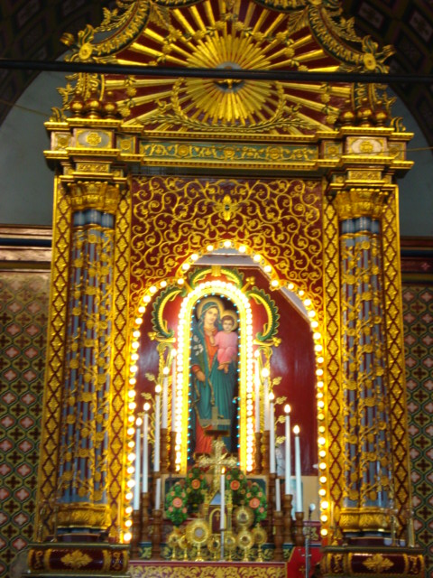 Manarcadu St Mary's church int.